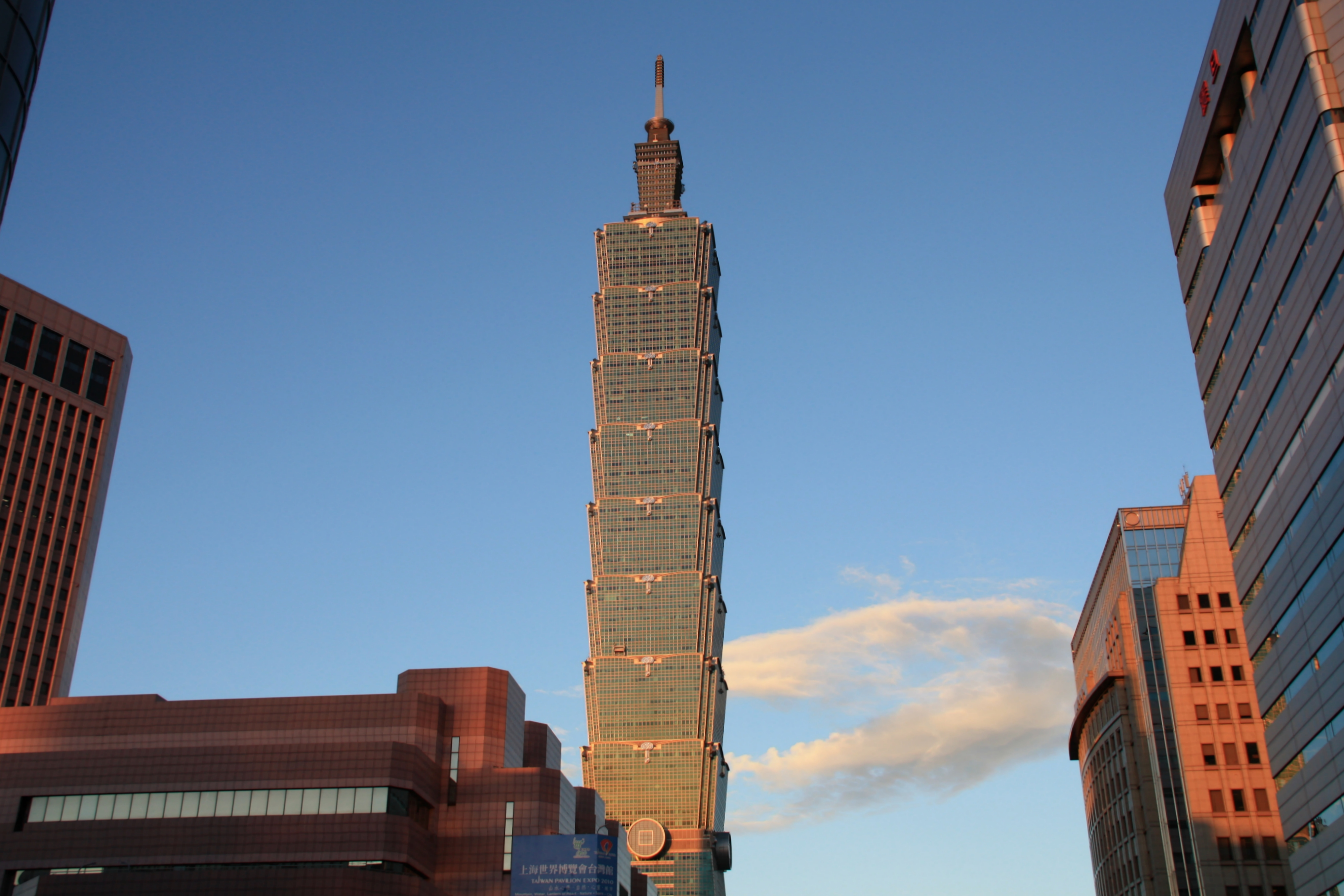 Táiběi Xìnyì District XìnYì Rd View to East Táiběi 101